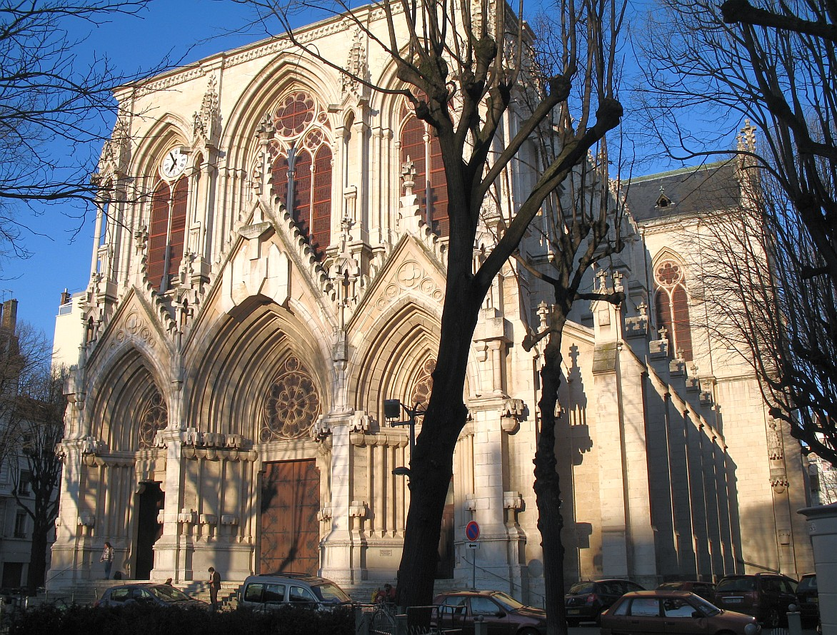 Catholic church Redemption in Lyon, France; front view